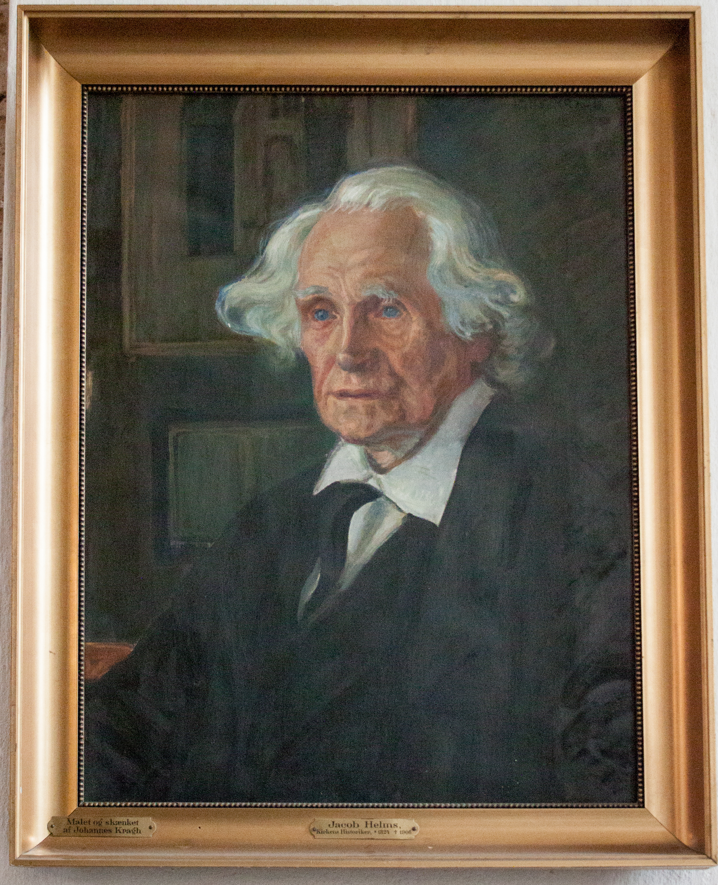 Portrait of Jacob Helms by Johannes Kragh, historian of Ribe Domkirke, in Ribe Domkirke.label QS:Len,"Portrait of Jacob Helms by Johannes Kragh, historian of Ribe Domkirke, in Ribe Domkirke." label QS:Lhu,"Jacob Helms, a dóm történészének portréja a ribei dómban."